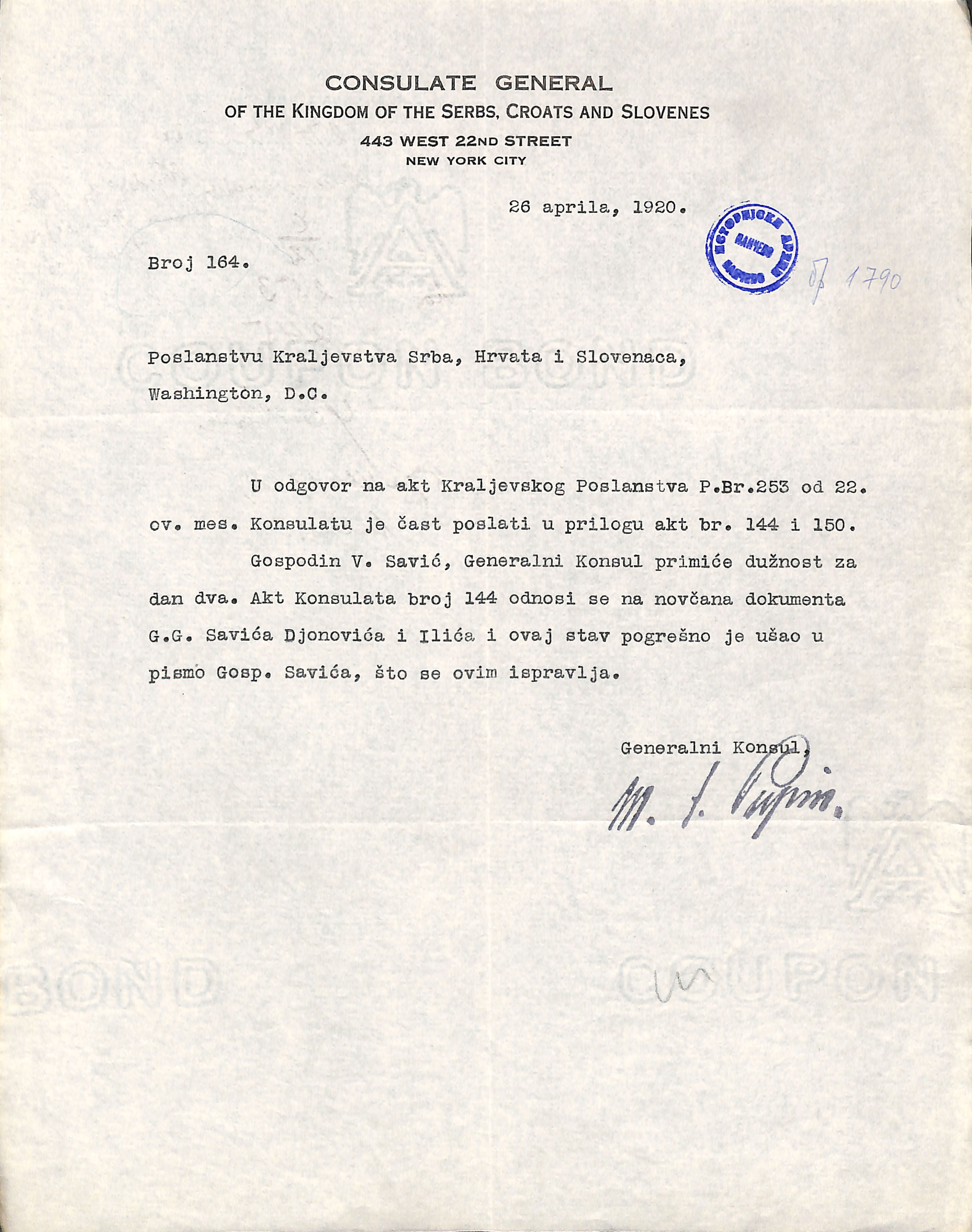 Letter from Mihailo Pupin, Consul General, mission of the Kingdom of Serbs, Croats and Slovenes.